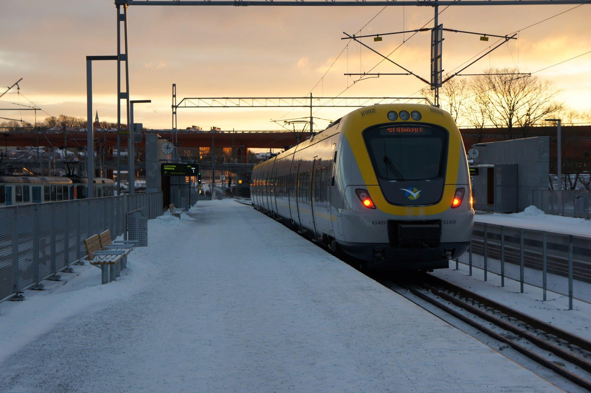 Gothenburg commuter rail train X61 at Gamlestaden Station